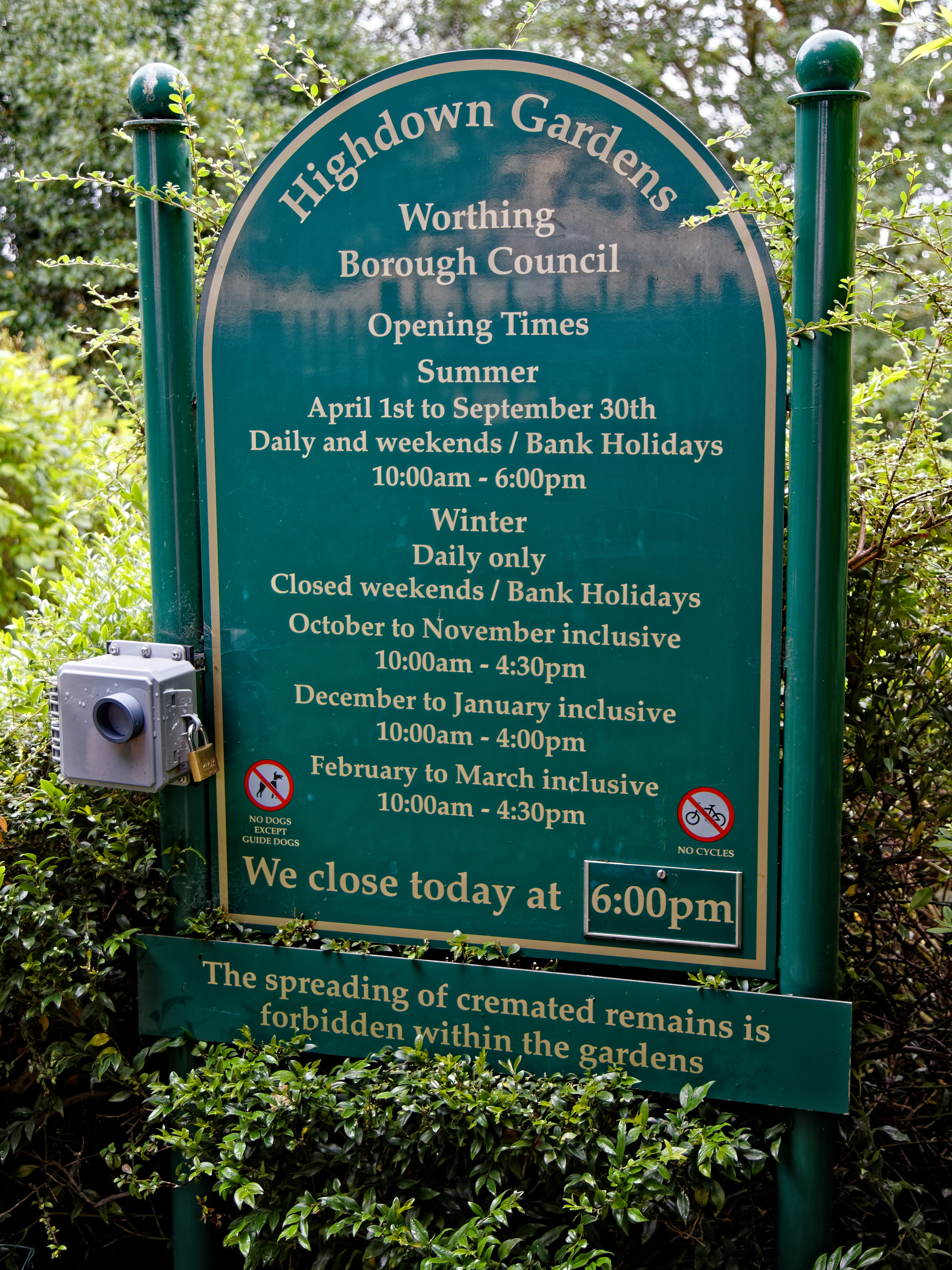 Entrance sign for Highdown Gardens, in Worthing, West Sussex, England.Mobile device view: Wikimedia (at August 2019) makes it difficult to immediately view photo groups related to this image. To see its most relevant allied photos, click on Highdown Gardens, and this uploader's Gardens and Signs photos. You can add a beta click-through 'categories' button to the very bottom of photo-pages you view by going to settings... three-bar icon top left.Desktop view: Wikimedia (at August 2019) makes it difficult to immediately view the helpful category links where you can find images related to this one in a variety of ways; for these go to the very bottom of the page.This image is one of a series of date and/or subject allied consecutive photographs kept in progression or location by file name number and/or time marking.Camera: Canon EOS 6D Mark II with Canon EF 24-105mm F4L IS USM lens.Software: File lens-corrected, optimized, perhaps cropped, with DxO PhotoLab Elite, and likely further optimized with Adobe Photoshop CS2.